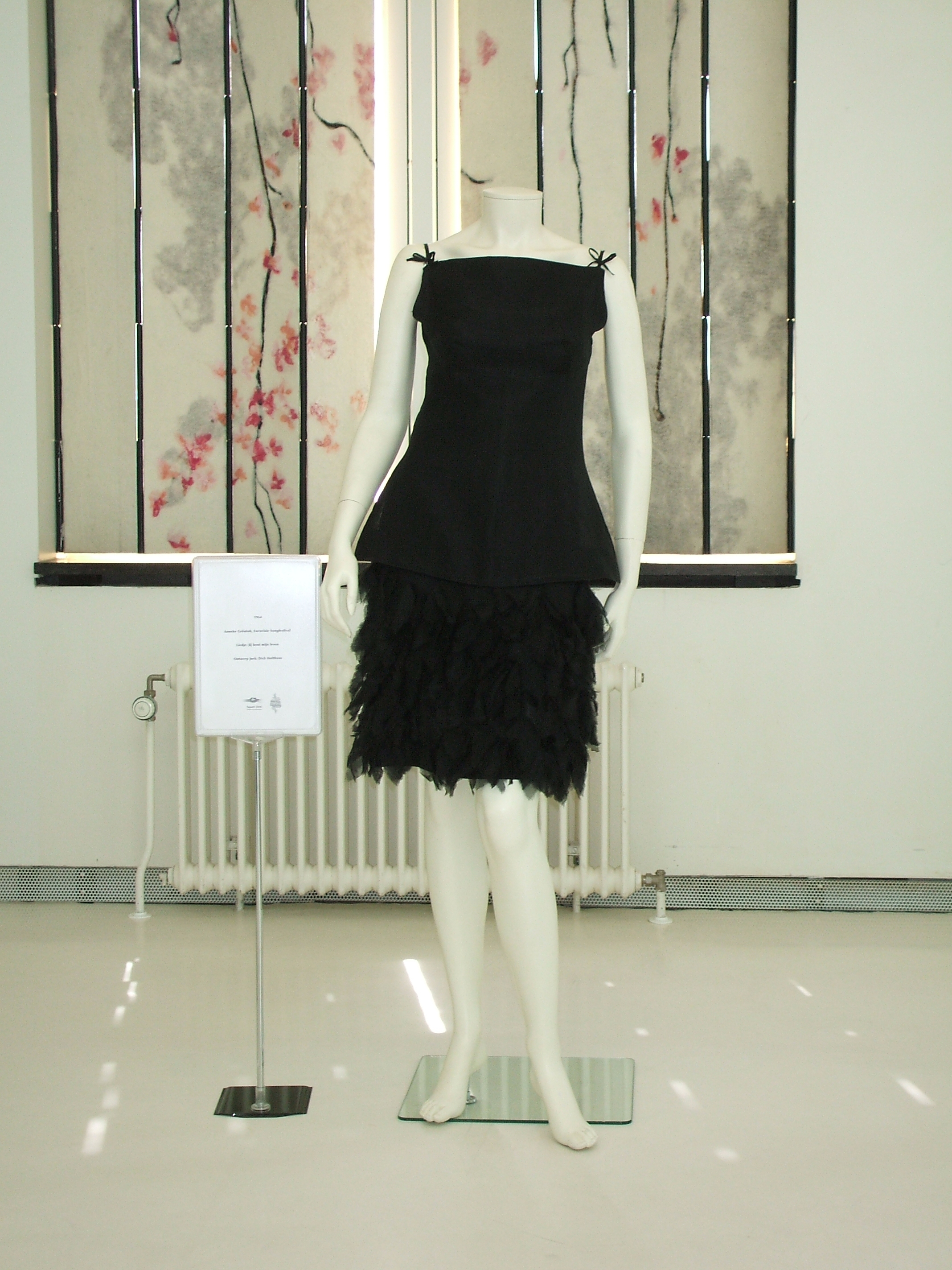 Anneke Grönloh's 1964 Eurovision Song Contest dress at the "May we have your dress, please?!" exposition for benefit of the Sandra Reemer Foundation